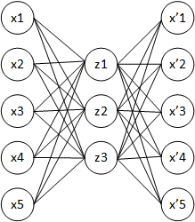 Autoencoder